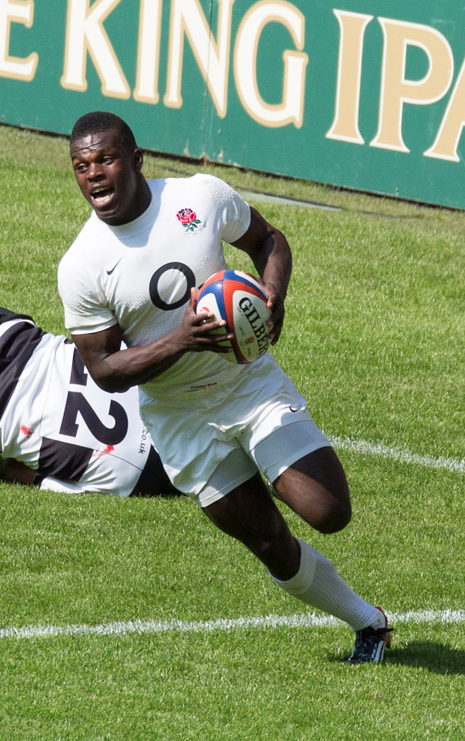 Christian Wade, having just evaded a tackle, sprints towards the try line in a friendly match against the Barbarians at Twickenham. This was his international debut for England.